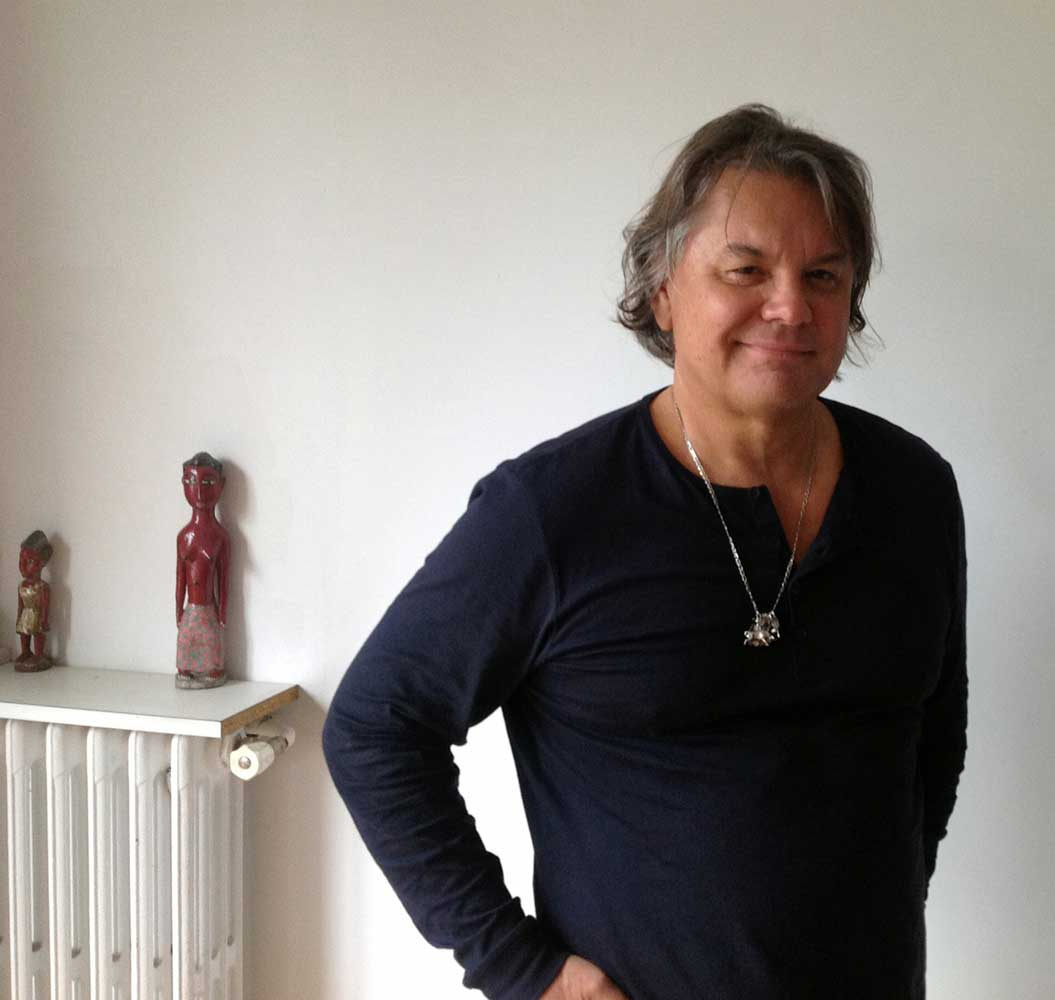 Portrait of Joseph Nechvatal, 2015